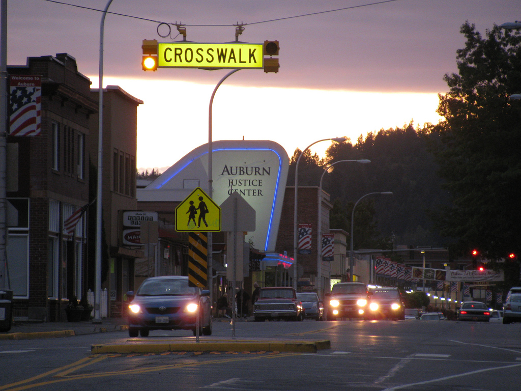 Photo shows the West and oldest side of Main Street, looking towards East Main and Auburn Way. Taken September of 2009.